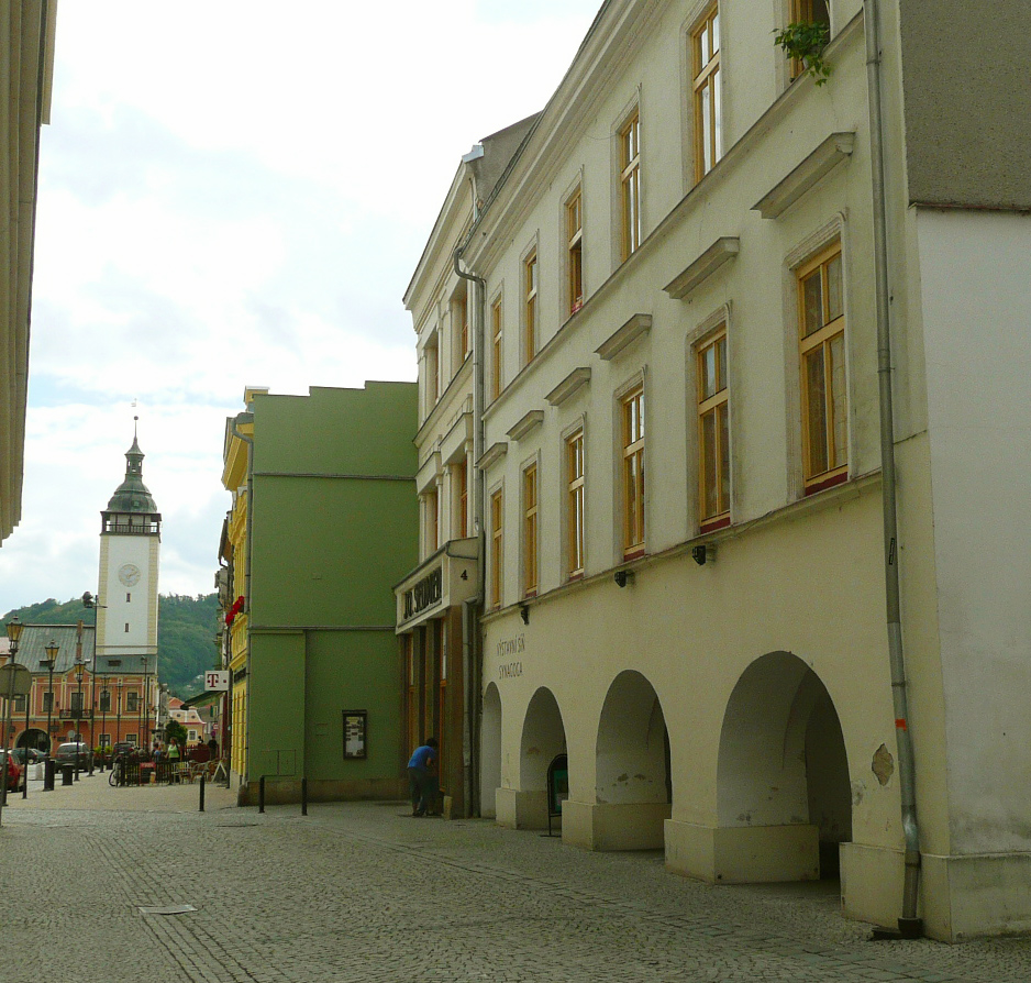 Gallery in the old Jewish Quarter in Hranice, in the way to the Synagogue